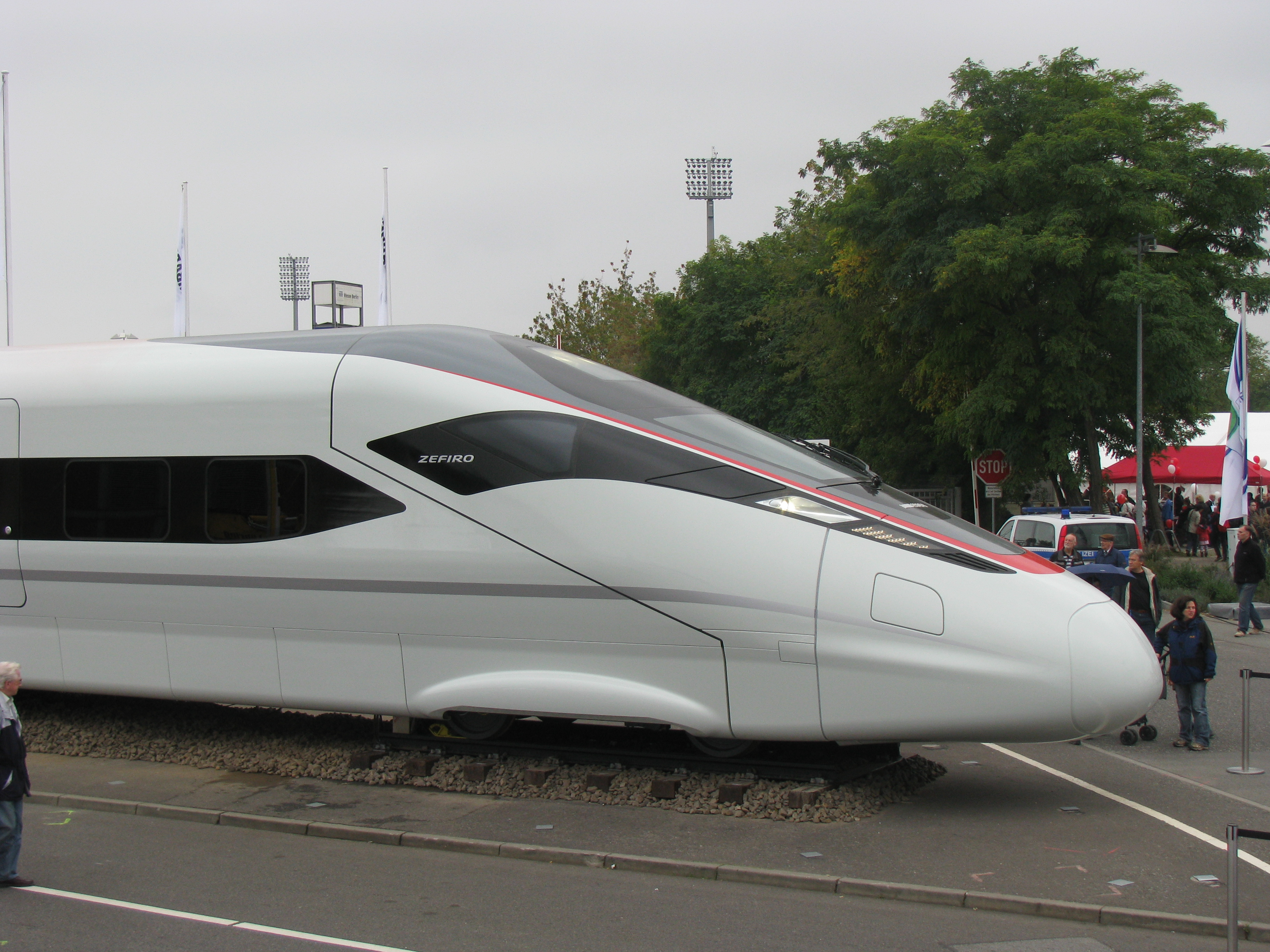 Bombardier Zefiro 380 on InnoTrans Fair 2010 in Berlin